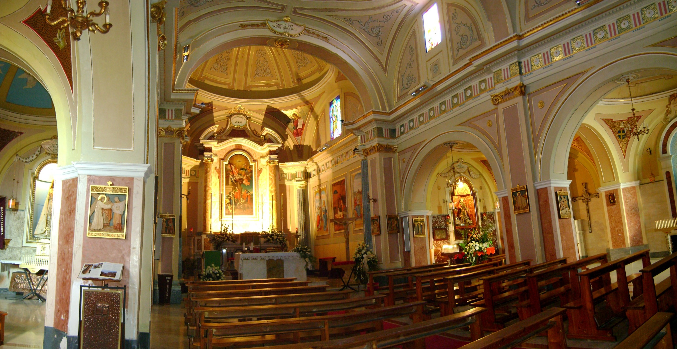 The interior of the church of Saints Cosmas and Damian, Roccascalegna, province of Chieti, Abruzzo